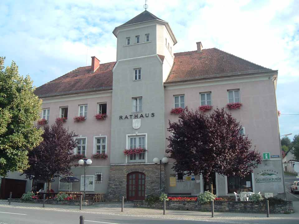 The City Hall in Lockenhaus, Burgenland, Austria